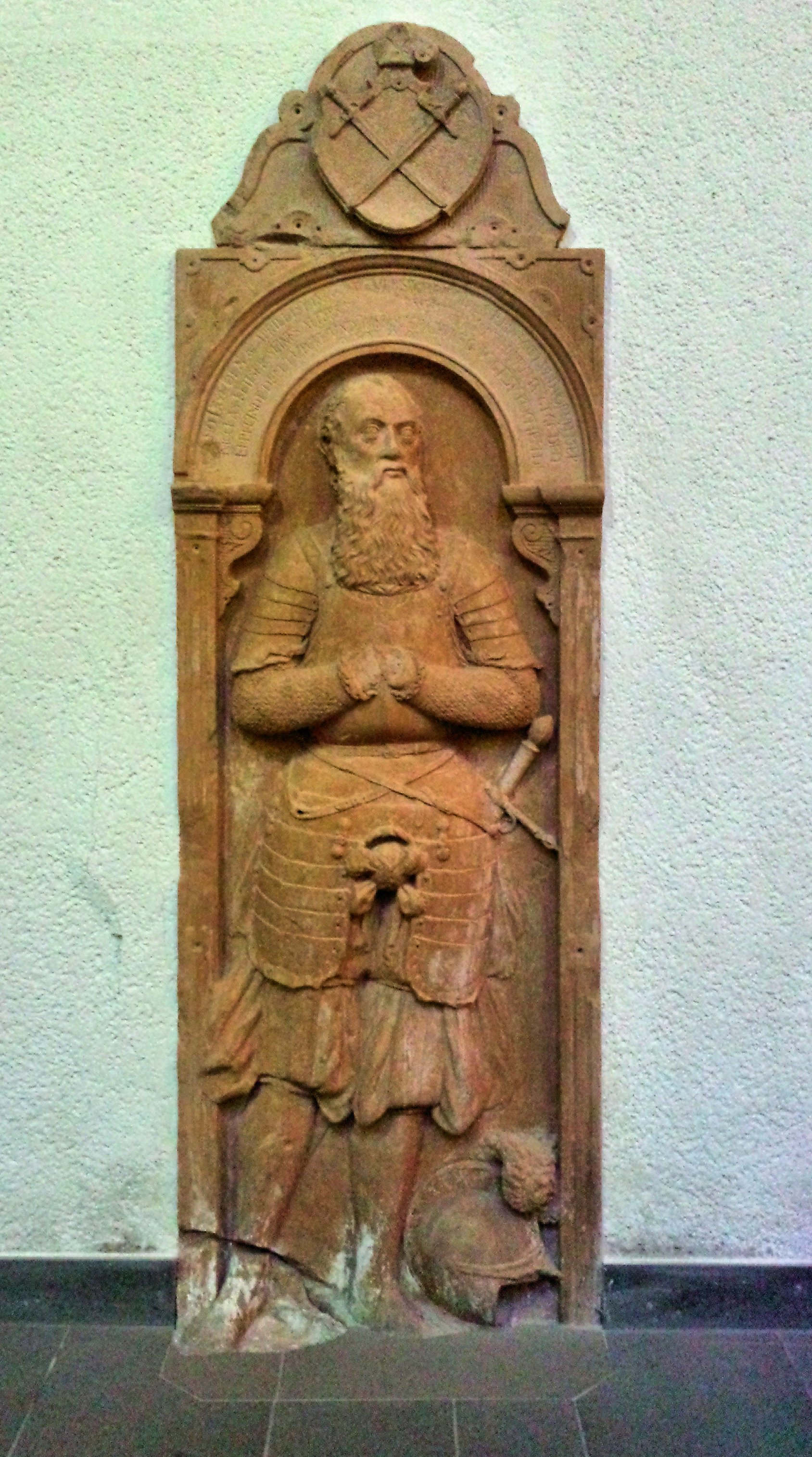 Epitaph of Niclas Keisjer in the Parish Church St. Martin in Cochem